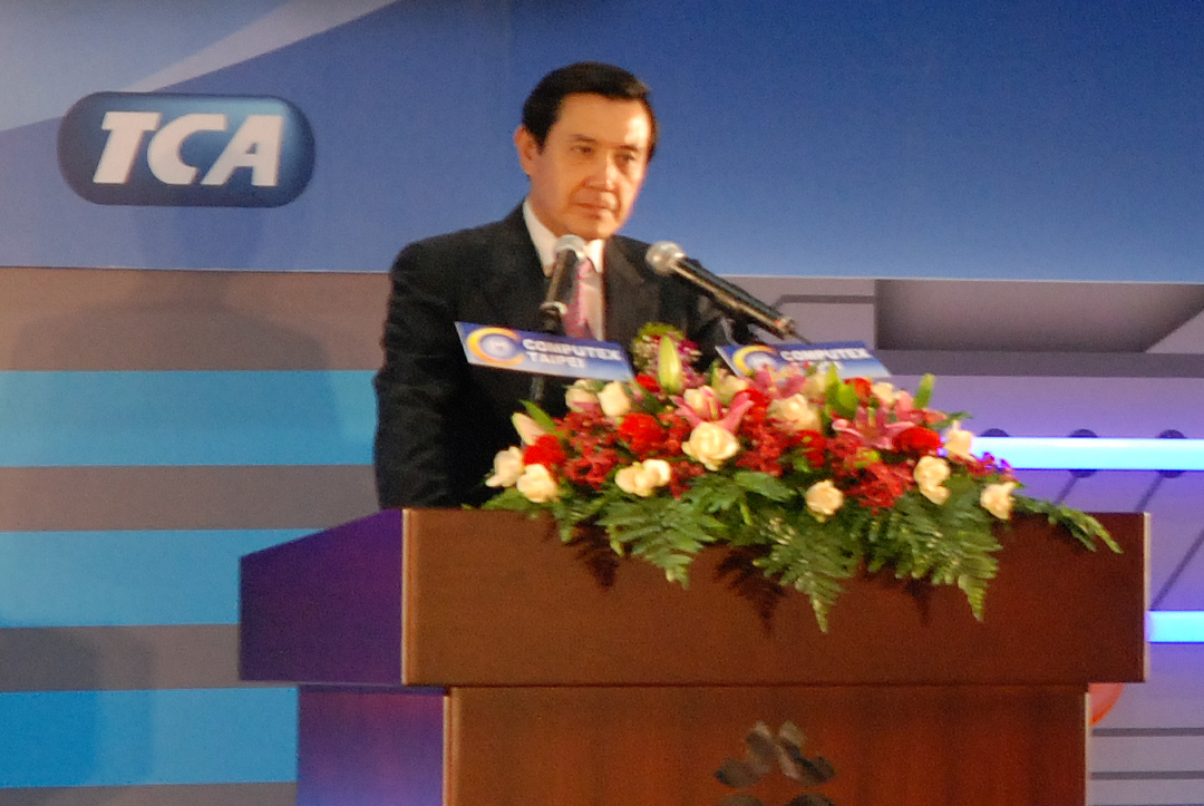 2008 COMPUTEX Taipei Opening: Ying-jeou Ma, President of ROC (Taiwan).President Ma speech